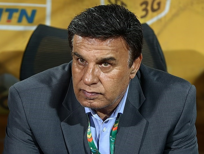 Parviz Mazloumi